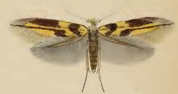 Stainton’s Natural History of the Tineina (1855–1873): Bucculatrix thoracella